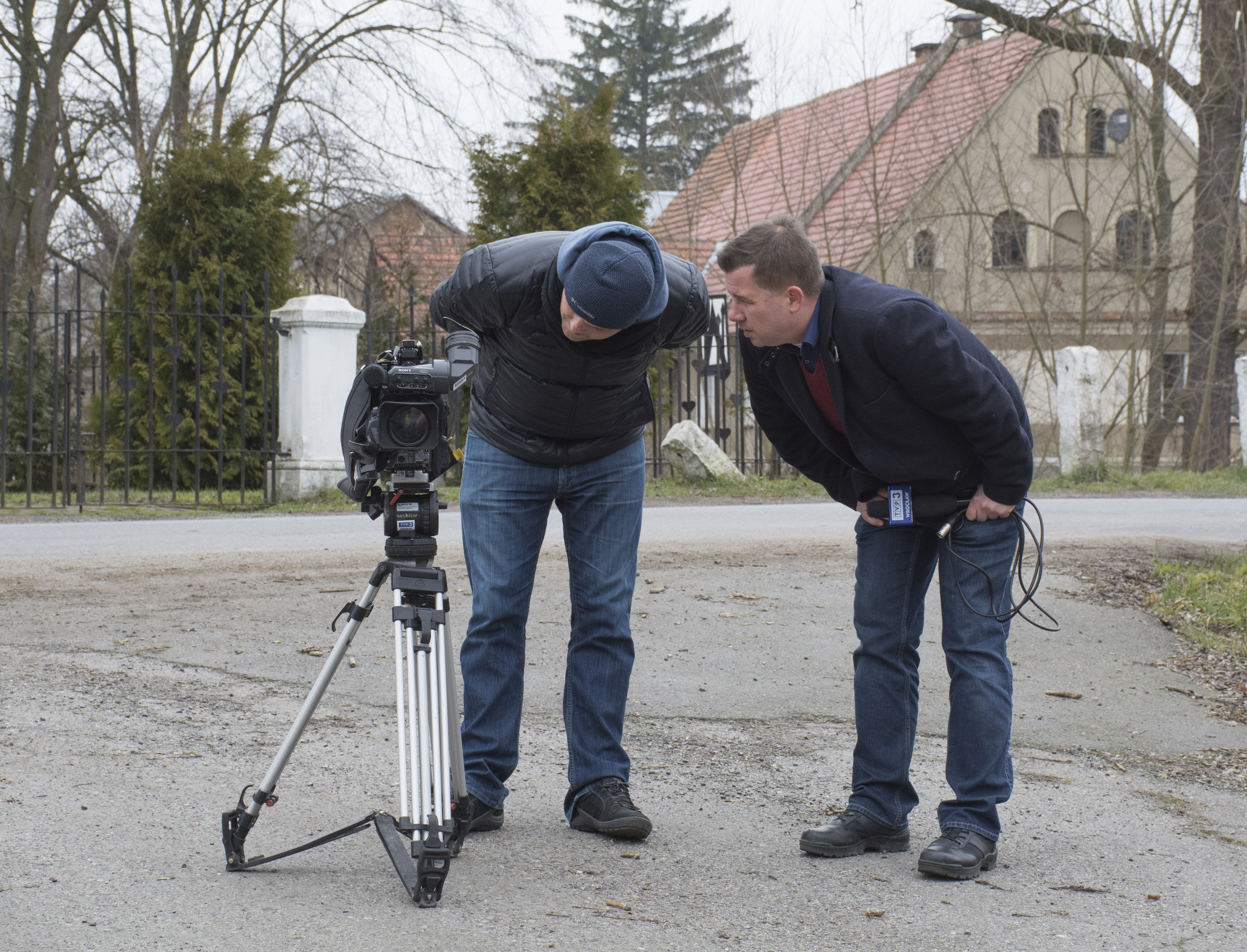 Wrocław Television journalists at work